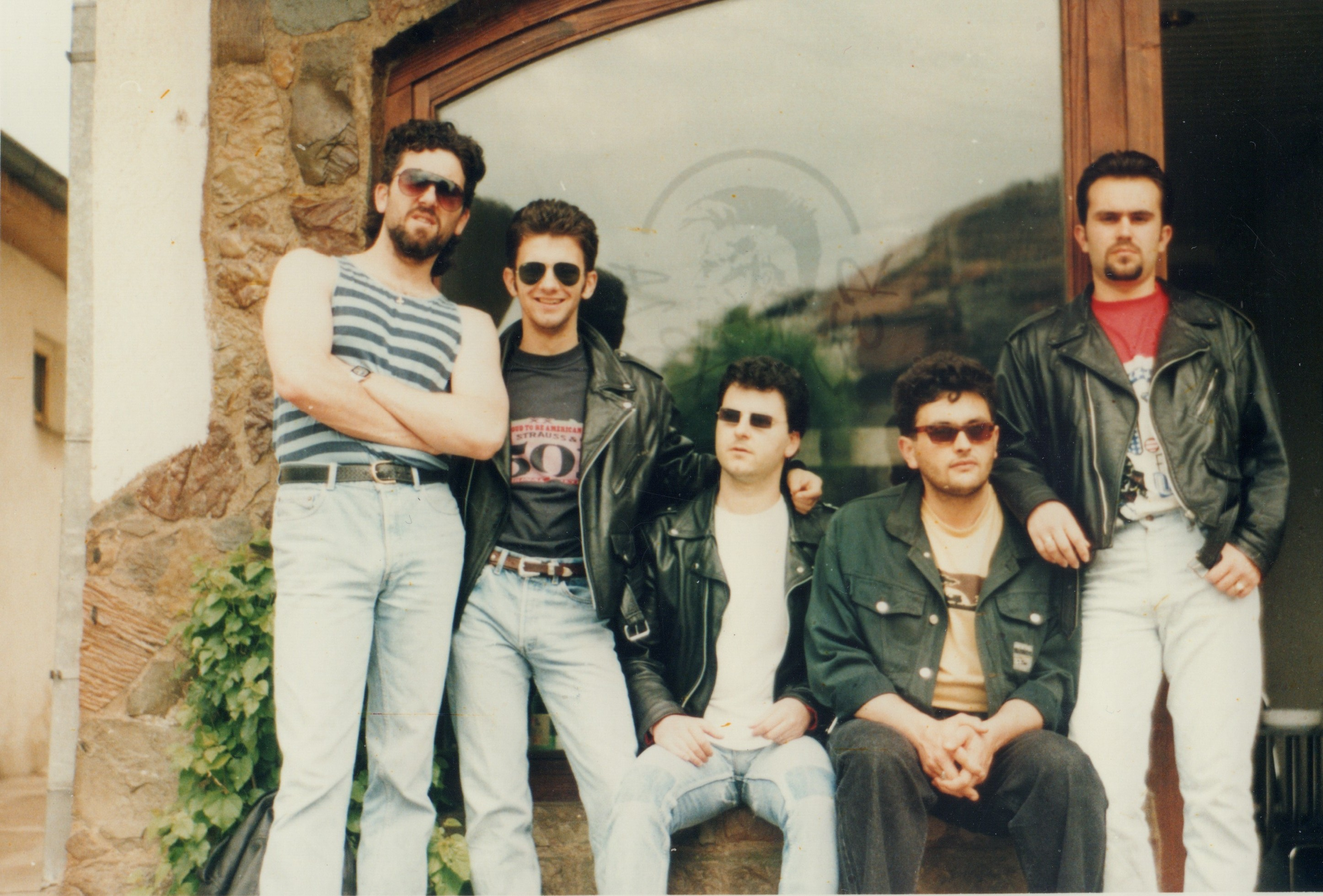 Jolly Jumper 1992.